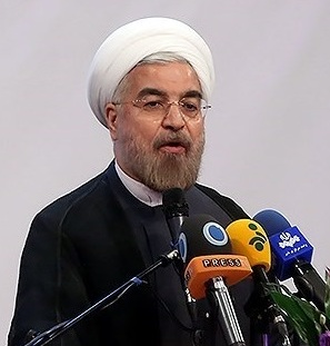 Hassan Rouhani speech after his election as president